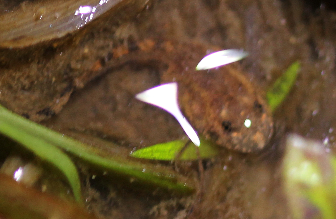 The tadpole of kemphole Night Frog